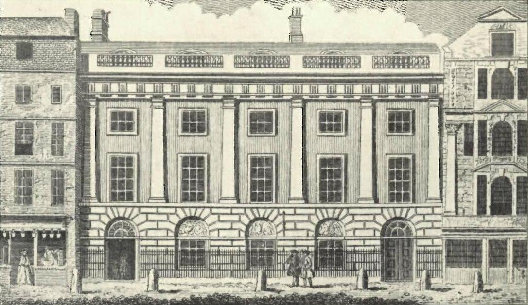 Engraving of East India House, Leadenhall Street, London, by T. Simpson: published in John Entick, A New and Accurate History and Survey of London (London, 1766); reproduced in William Foster, The East India House (London, 1924)